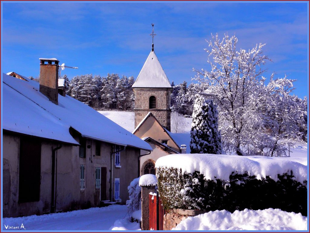 Vue de Corlier enneigé